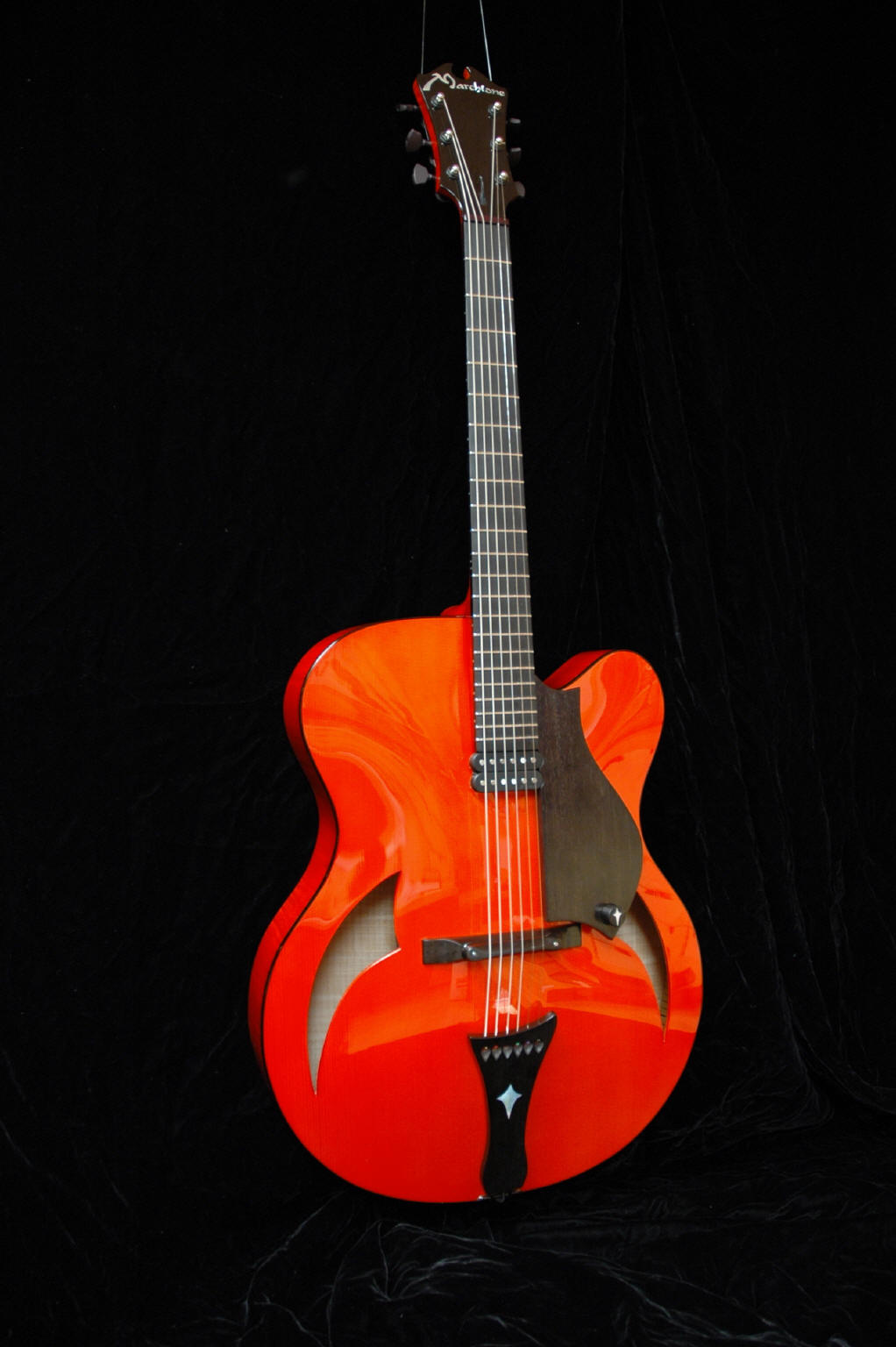 Marchione 17" Archtop Guitar